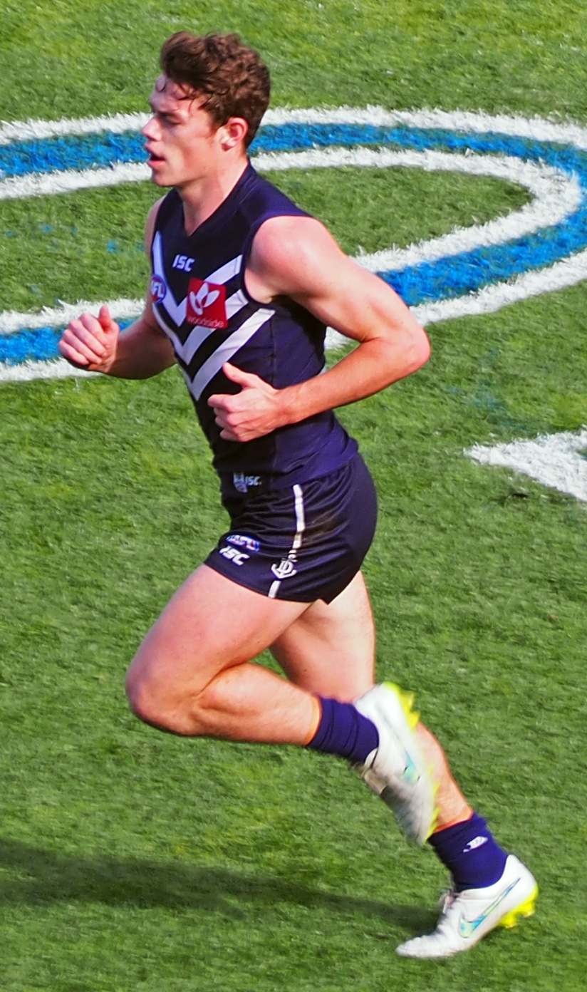 Lachie Neale playing for Fremantle Football Club at Patersons Stadium, Round 22, 30 August 2015